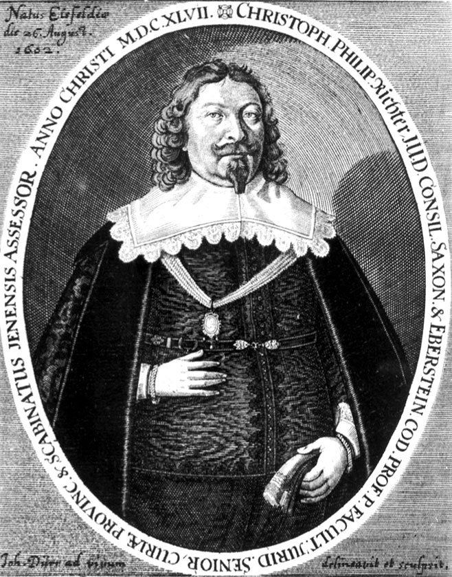 Christoph Philipp Richter (1602-1673) german legal scholar